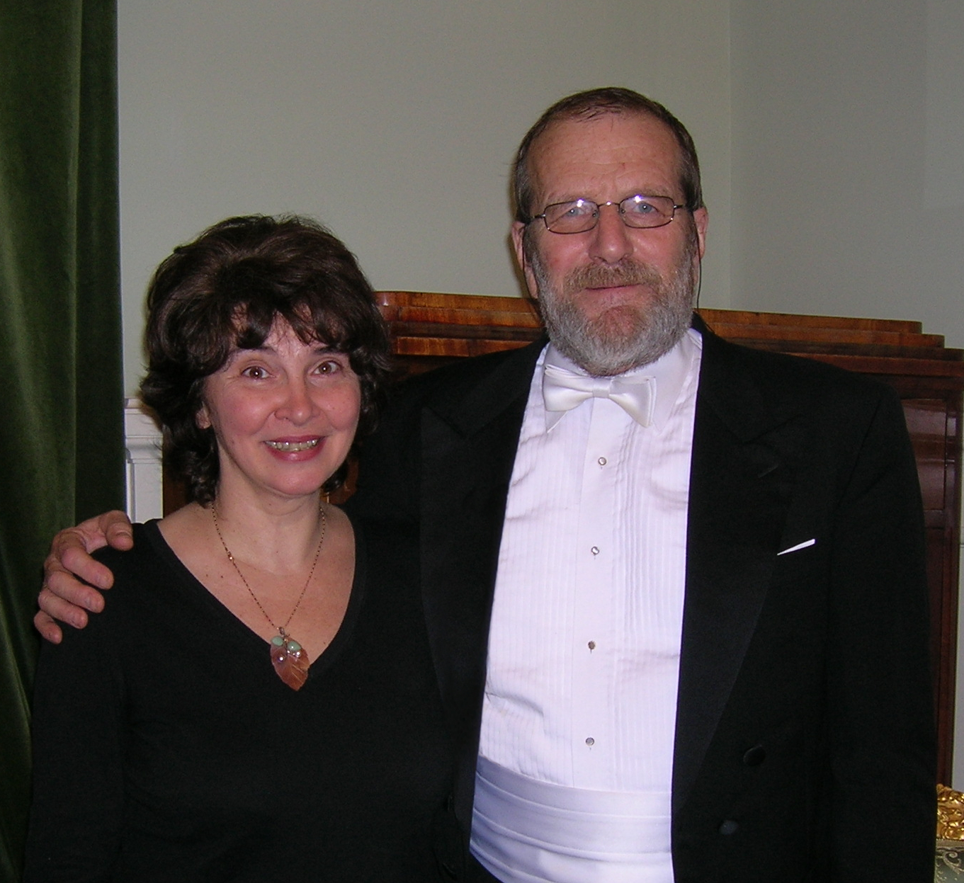 Maxim Shostakovich, Irina Chukovskaya. After the concert in Philharmonic Hall. 4 October 2009. St. Petersburg